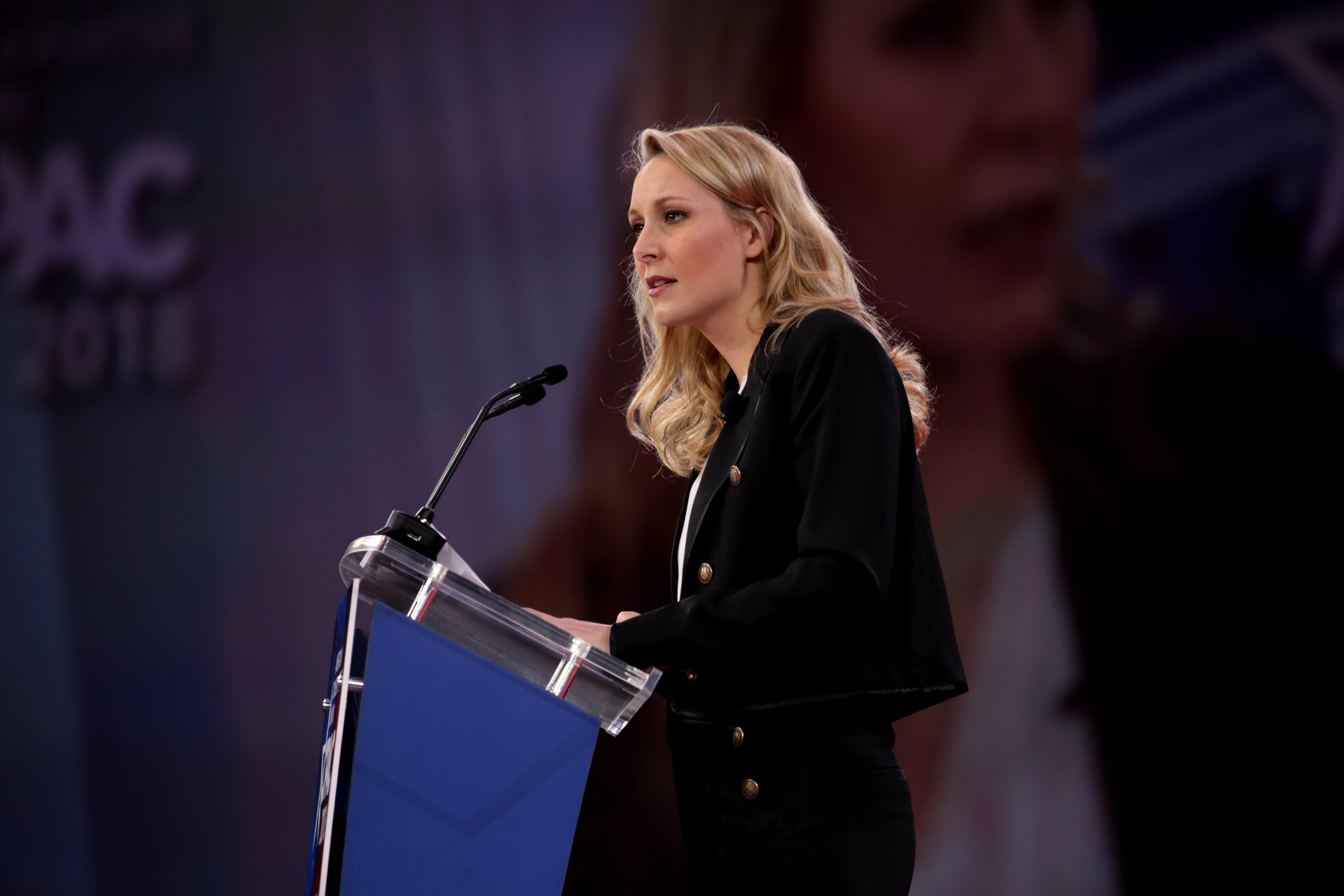 Marion Maréchal-Le Pen speaking at the 2018 Conservative Political Action Conference (CPAC) in National Harbor, Maryland.